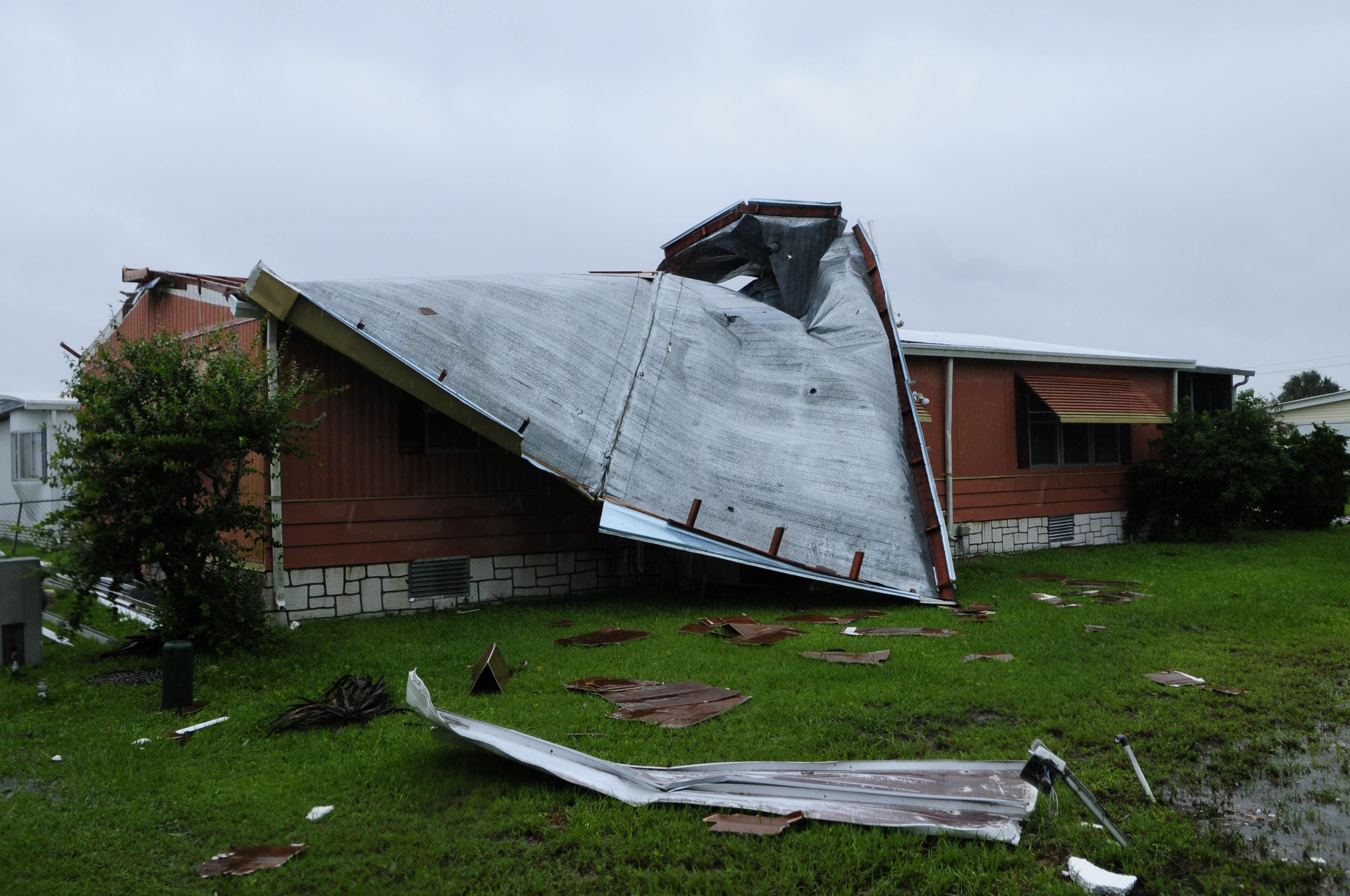 Barefoot Bay, FL, August 20, 2008 -- This residence was damaged by a tornado spawned by Tropical Storm Fay that touched down in Brevard County. Winds were strong enough to peel the roof back, yet there were no injuries. Barry Bahler/FEMA